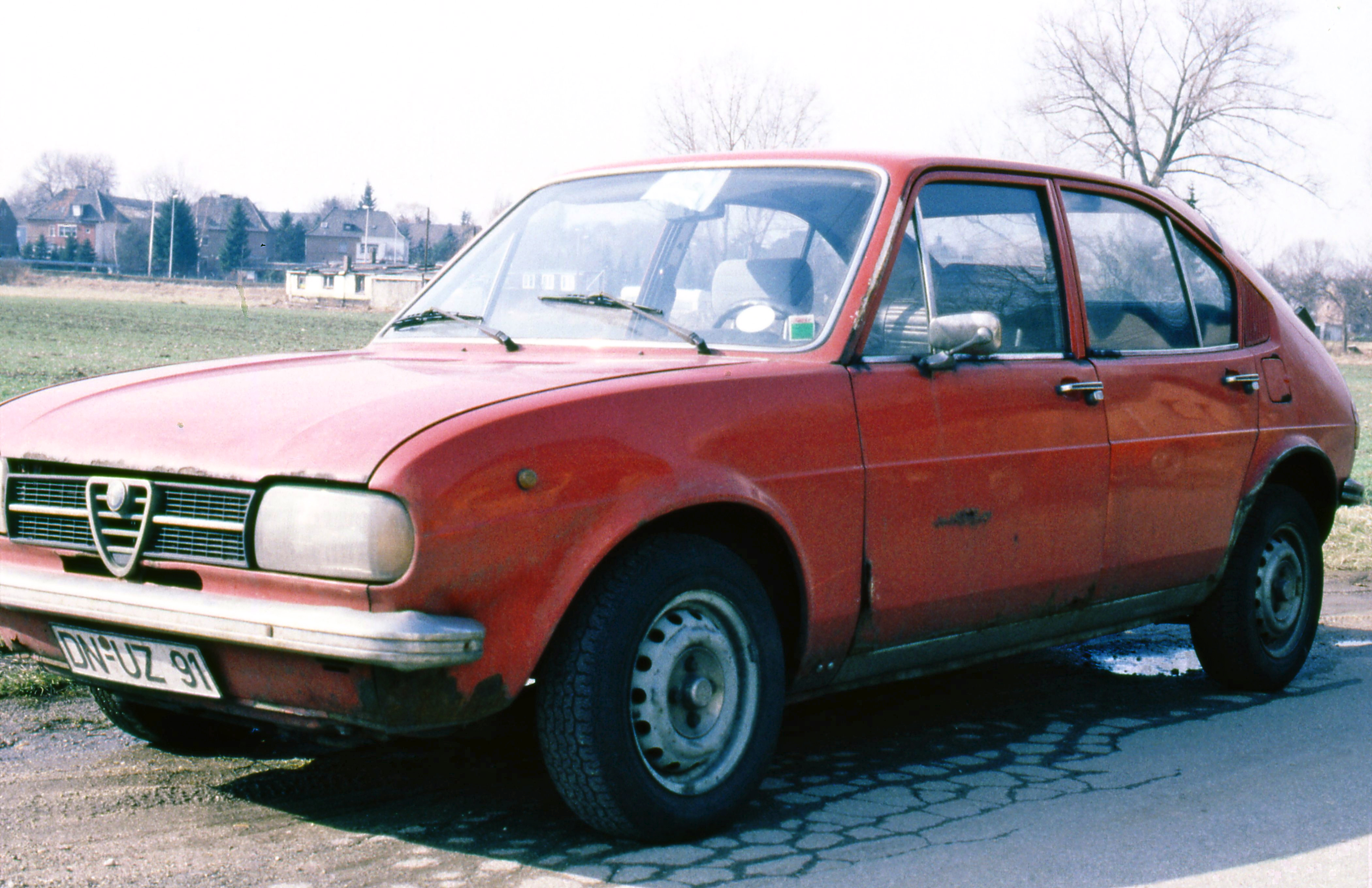 Alfa Romeo Alfasud about 6 years old in 1985